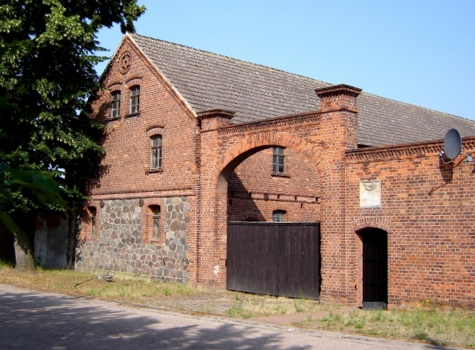 Farm in Möckern-Büden